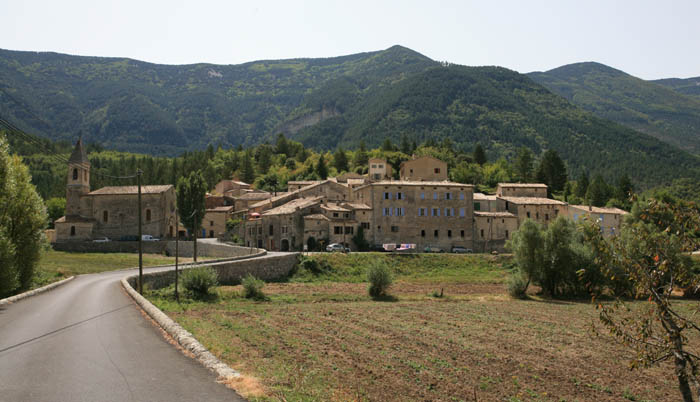 the village of Savoillans - Vaucluse, France